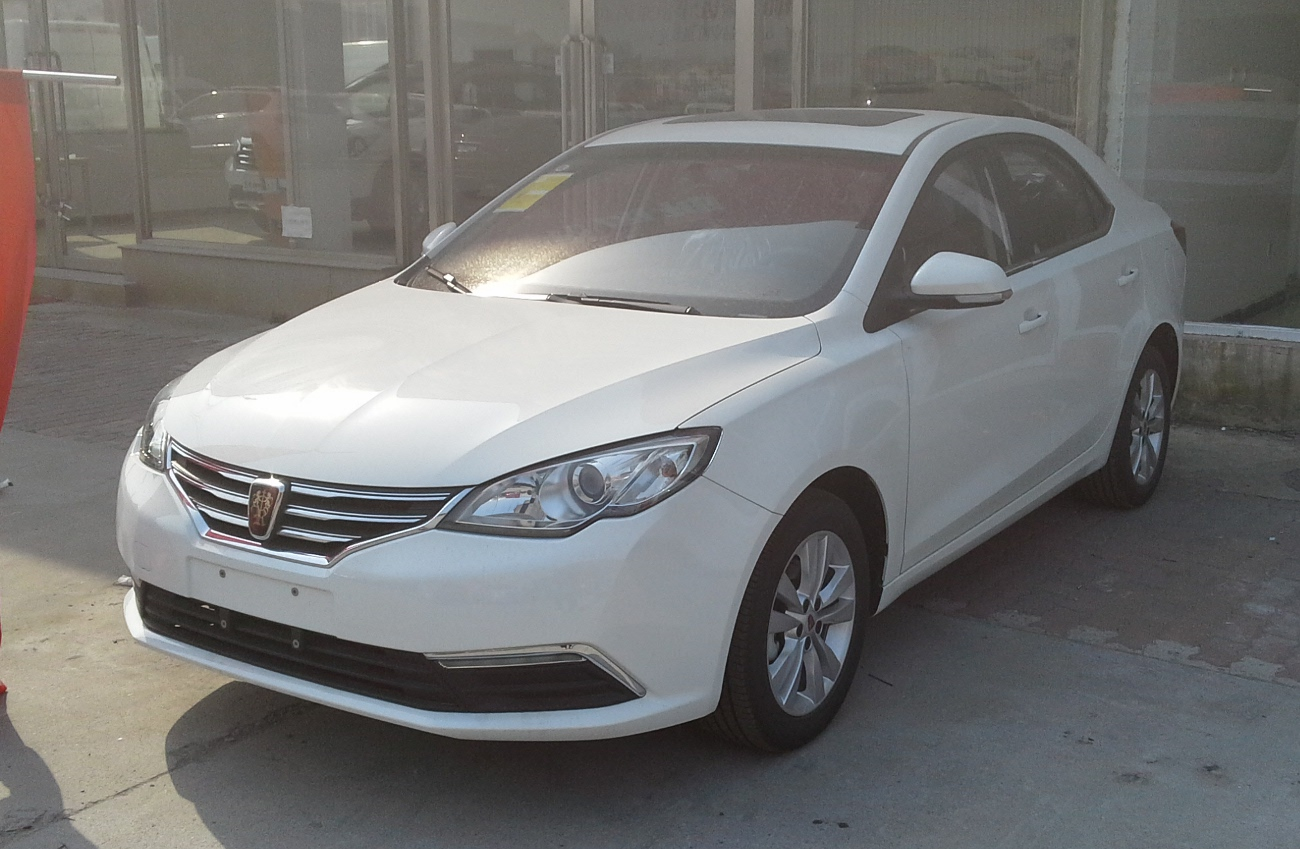 Roewe 360 photographed in Tianjin, China.